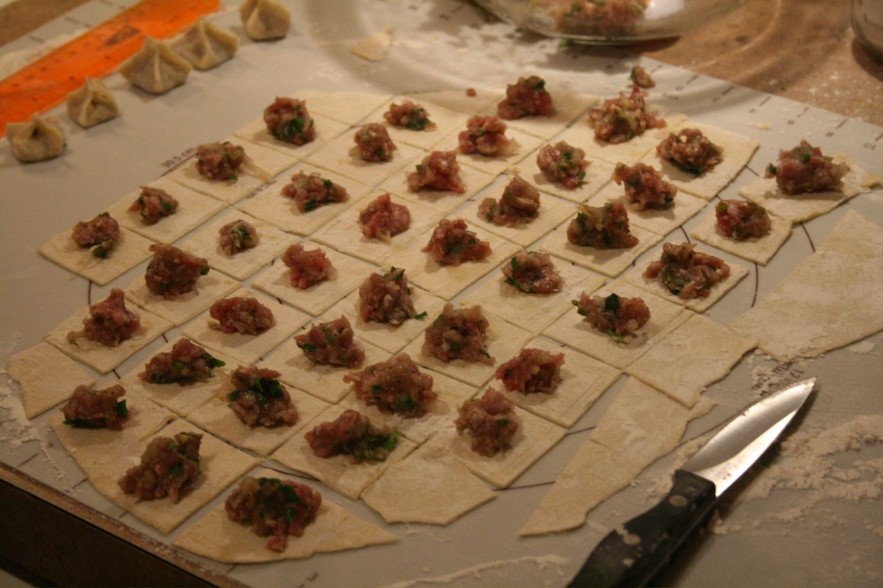 Making manti, Turkish dumplings, as seen in the February 2008 issue of Martha Stewart Living. Each dumpling is filled with lamb, onion and parsley. They are served with a yogurt sauce and melted butter. Read about it at .